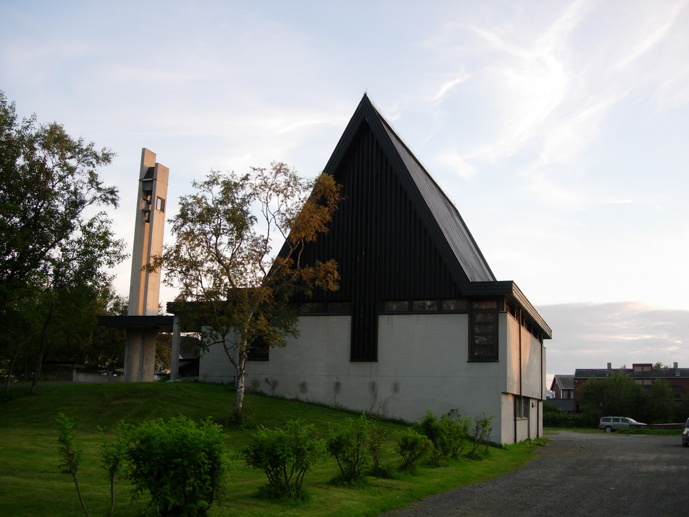 St. Eysteins Catholic Church in Bodø